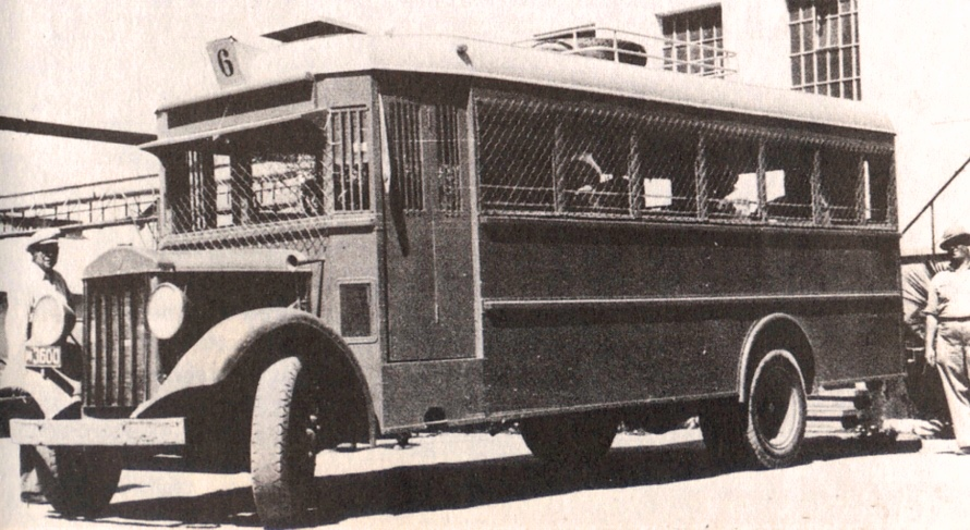 A Jewish self-defense bus equipped with wire screens to protect against rock, glass, and grenade throwing during 1936-1939 Arab revolt in the British Mandate of Palestine. The Jewish community adopted the policy of restraint (Havlagah).